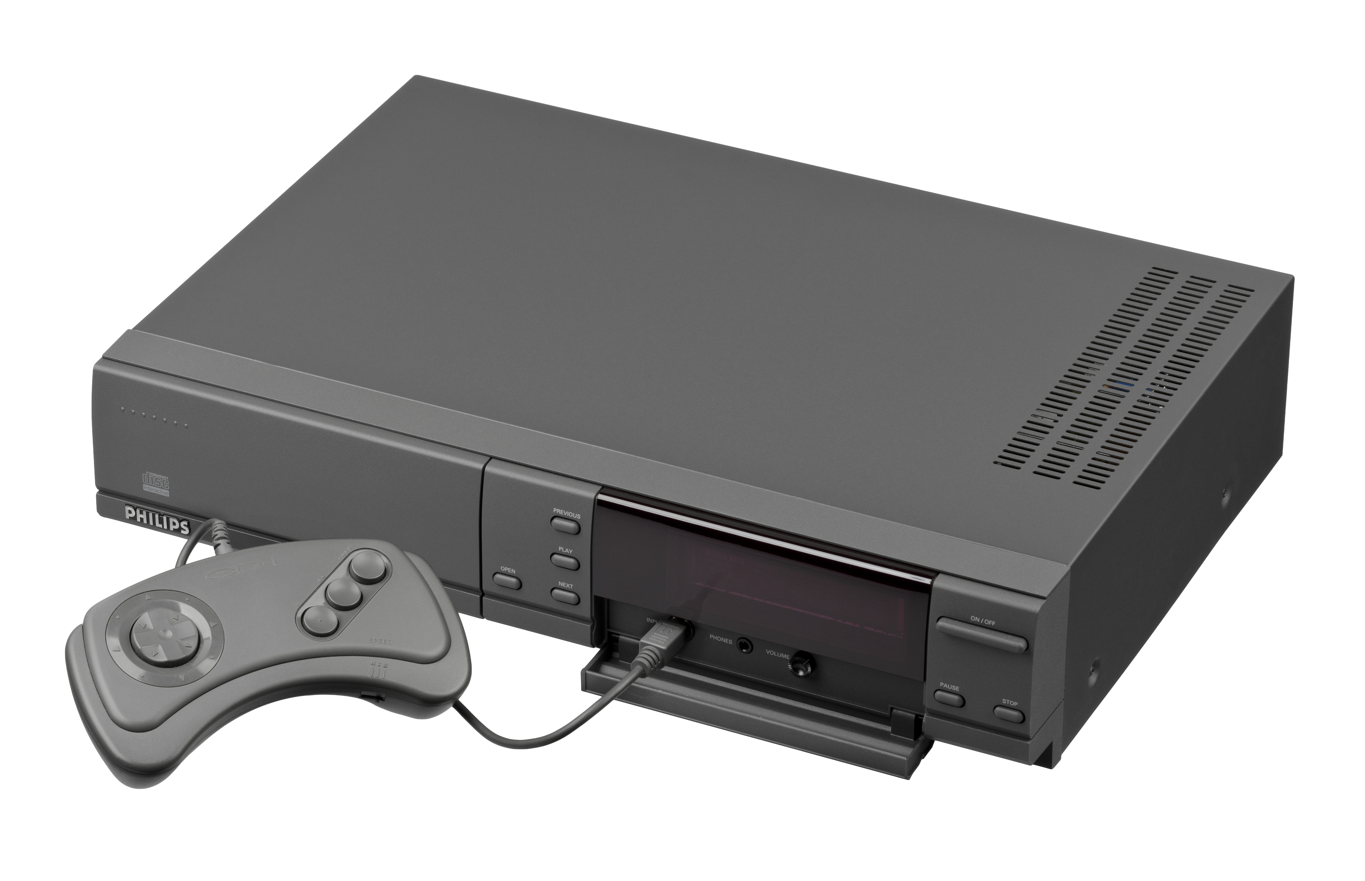 The Philips CD-i, model number 220, a home interactive multimedia/game console first released in 1991. Multiple models were produced for either professional or consumer use. The 220 is one of the more common consumer models, and could be outfitted with an auxiliary video cartridge for enhanced video playback.